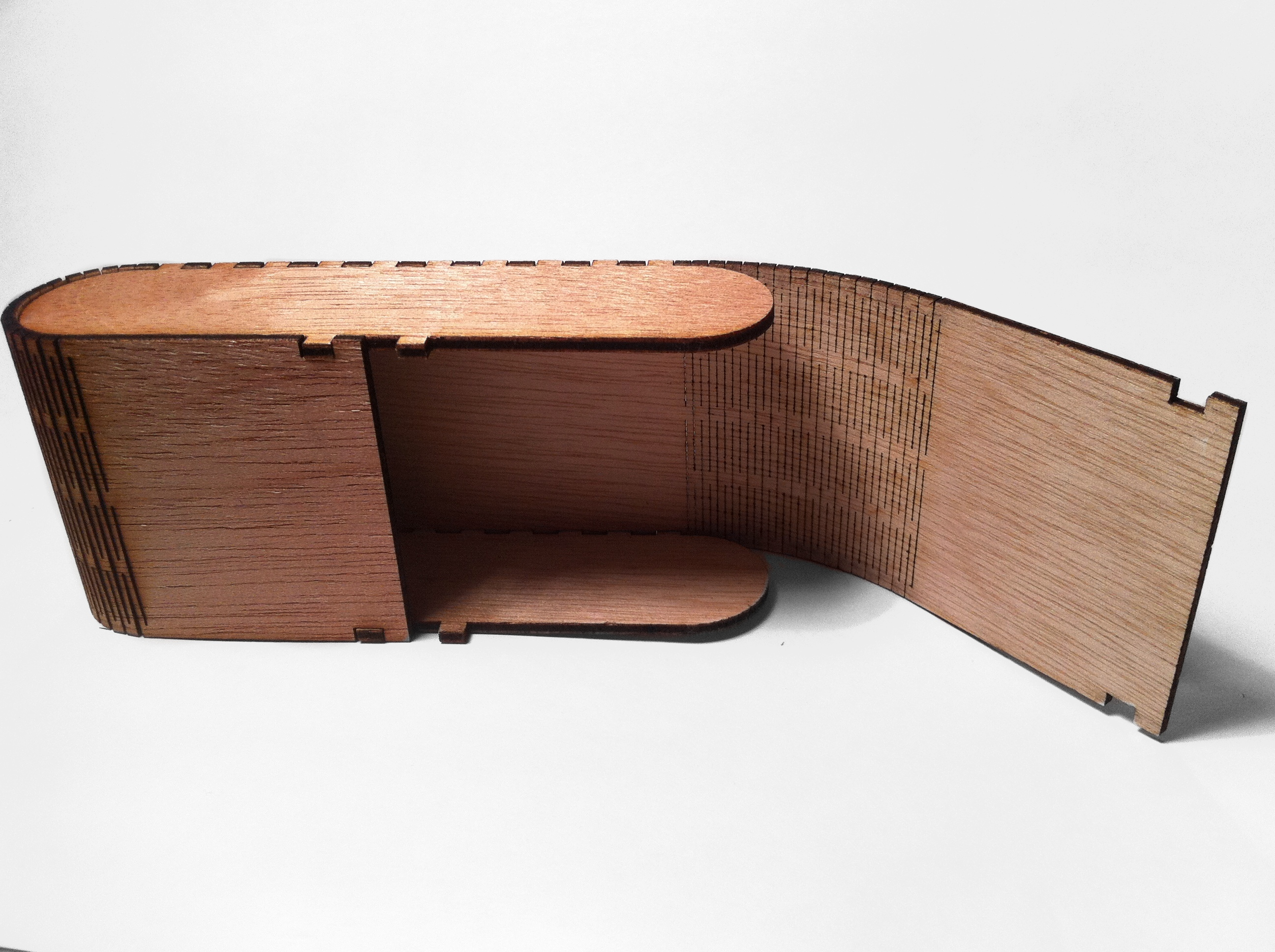 An example of a living hinge laser cut from plywood.